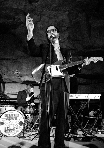 David Berman of the Silver Jews plays his final show in an underground cave. 1-31-09 McMinnville, TN.